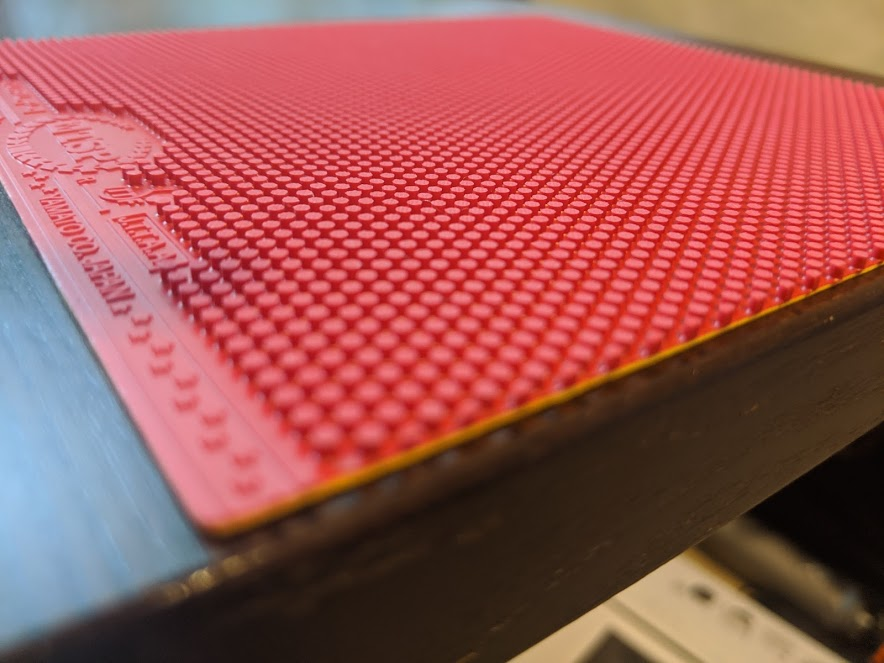 A closeup picture of long pips table tennis rubber